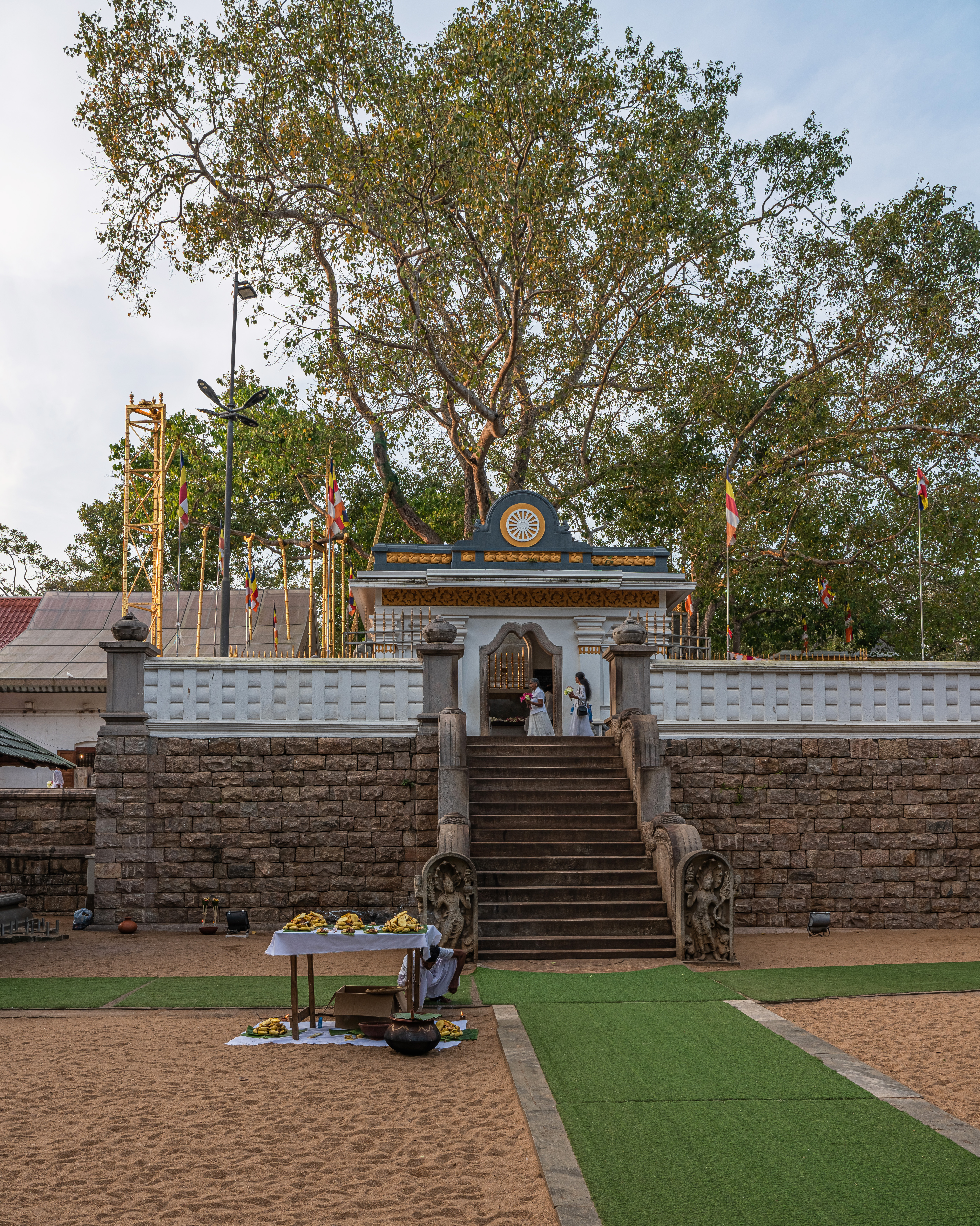 Jaya Sri Maha Bodhi tree and shrine complex in Anuradhapura, Sri Lanka